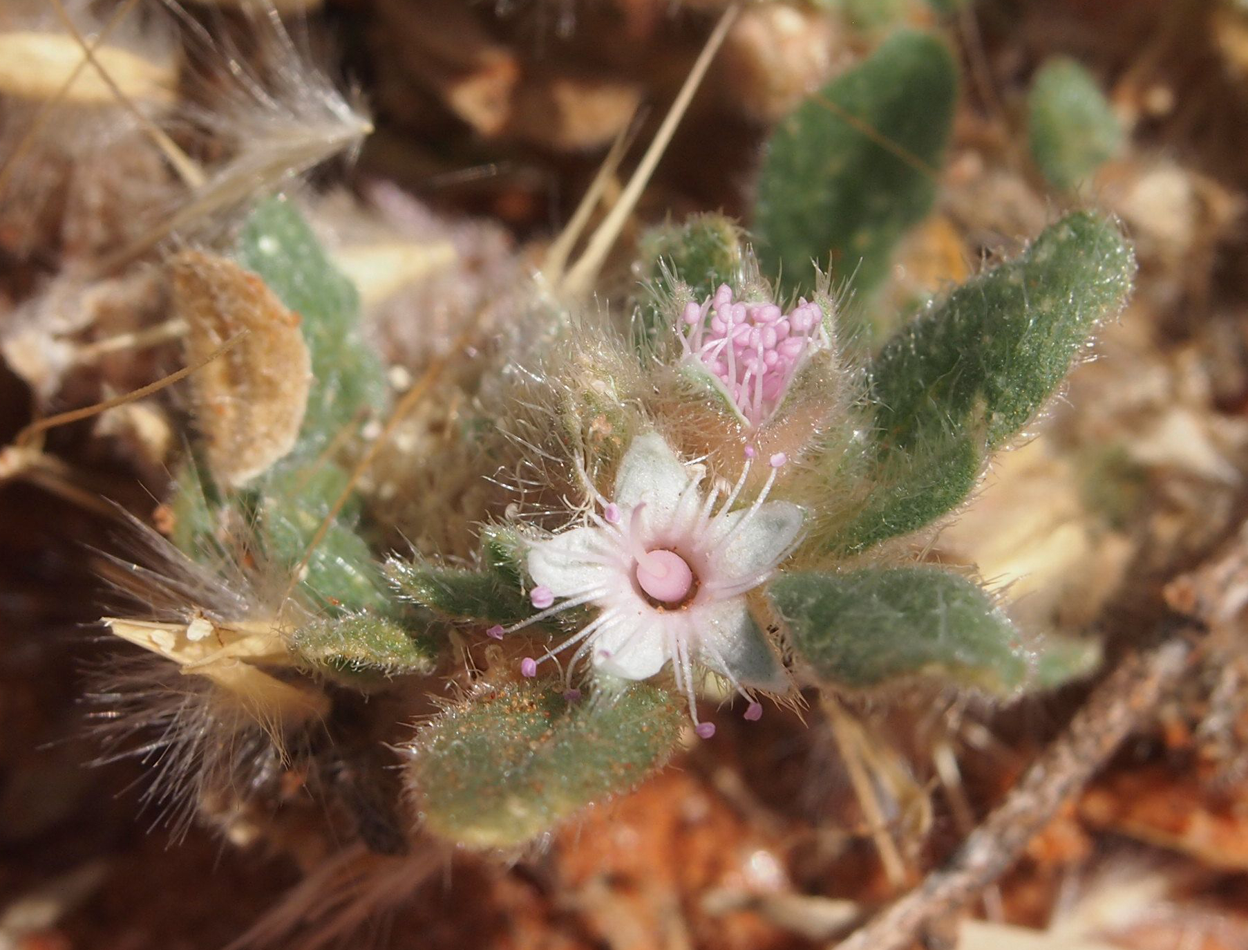 Trianthema pilosa flower